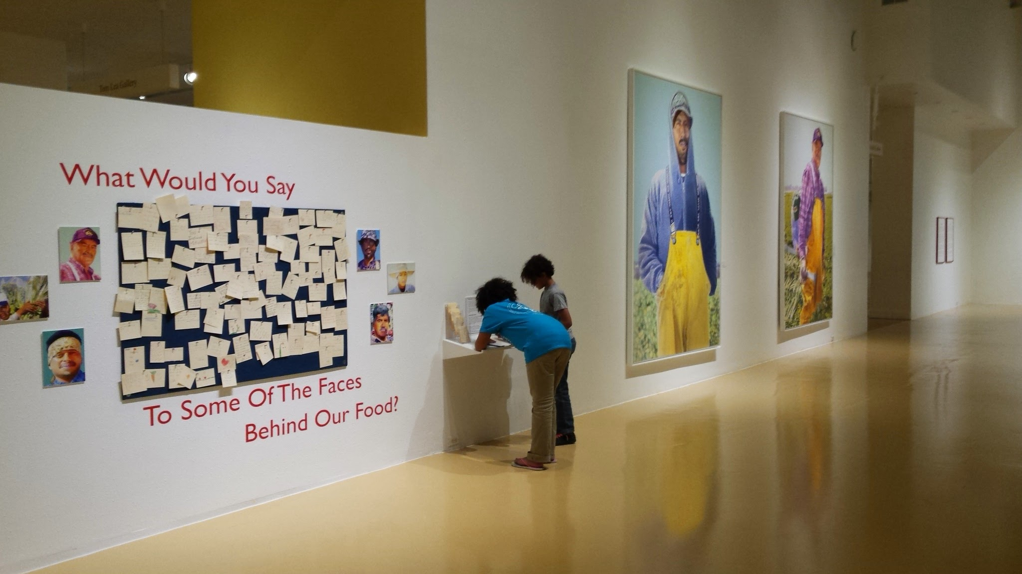 Children interacting with an exhibit at the El Paso Museum of Art in 2015.